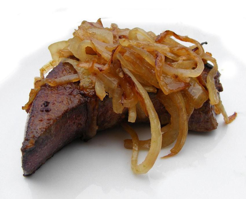 Gently panfried slice of Berkshire pig's liver with sauteed onion.